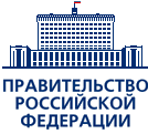 Emblem of the Government of the Russian Federation